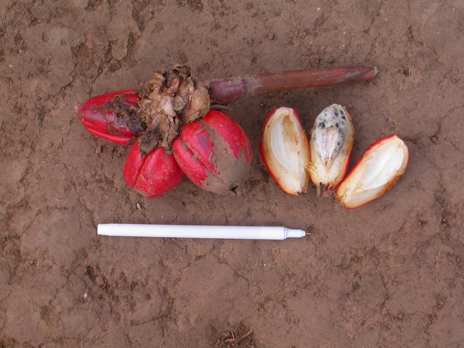 Fruit of Aframomum zambesiacum. Photo taken near Izumbwe village, Southern Highlands of Tanzania